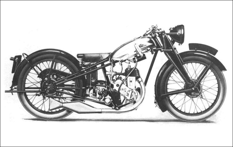 Cotton JAP 150 motorcycle.